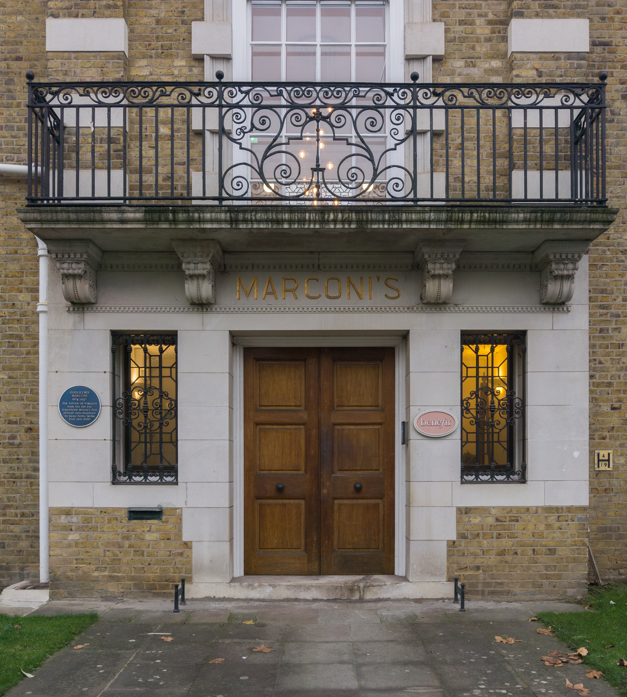 Main entrance of the New Street factory of Guglielmo Marconi